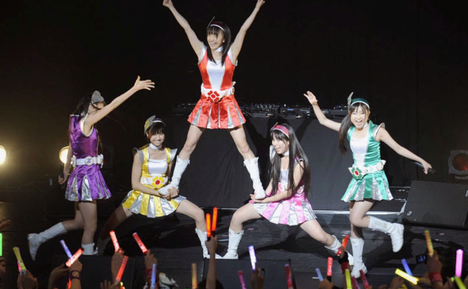 Momoiro Clover Z performing "Z Densetsu: Owarinaki Kakumei" at the 2011 Jingu Gaien Fireworks Festival.